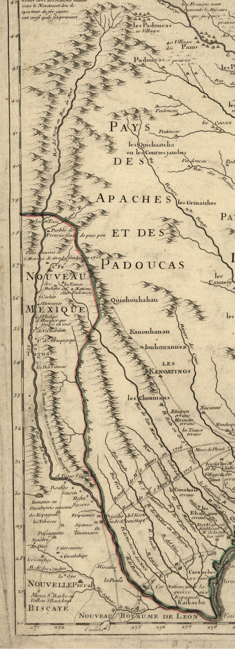 Rio Grande River (Rio del Norte), 1718, from Carte de la Louisiane et du cours du Mississipi by Guillaume de L'Isle. Licensing My contributions cleaning and highlighting are also donated to Public Domain. Bill Whittaker (talk) 18:40, 4 August 2009 (UTC) The Library of Congress scan is covered by: The 1718 map is covered by